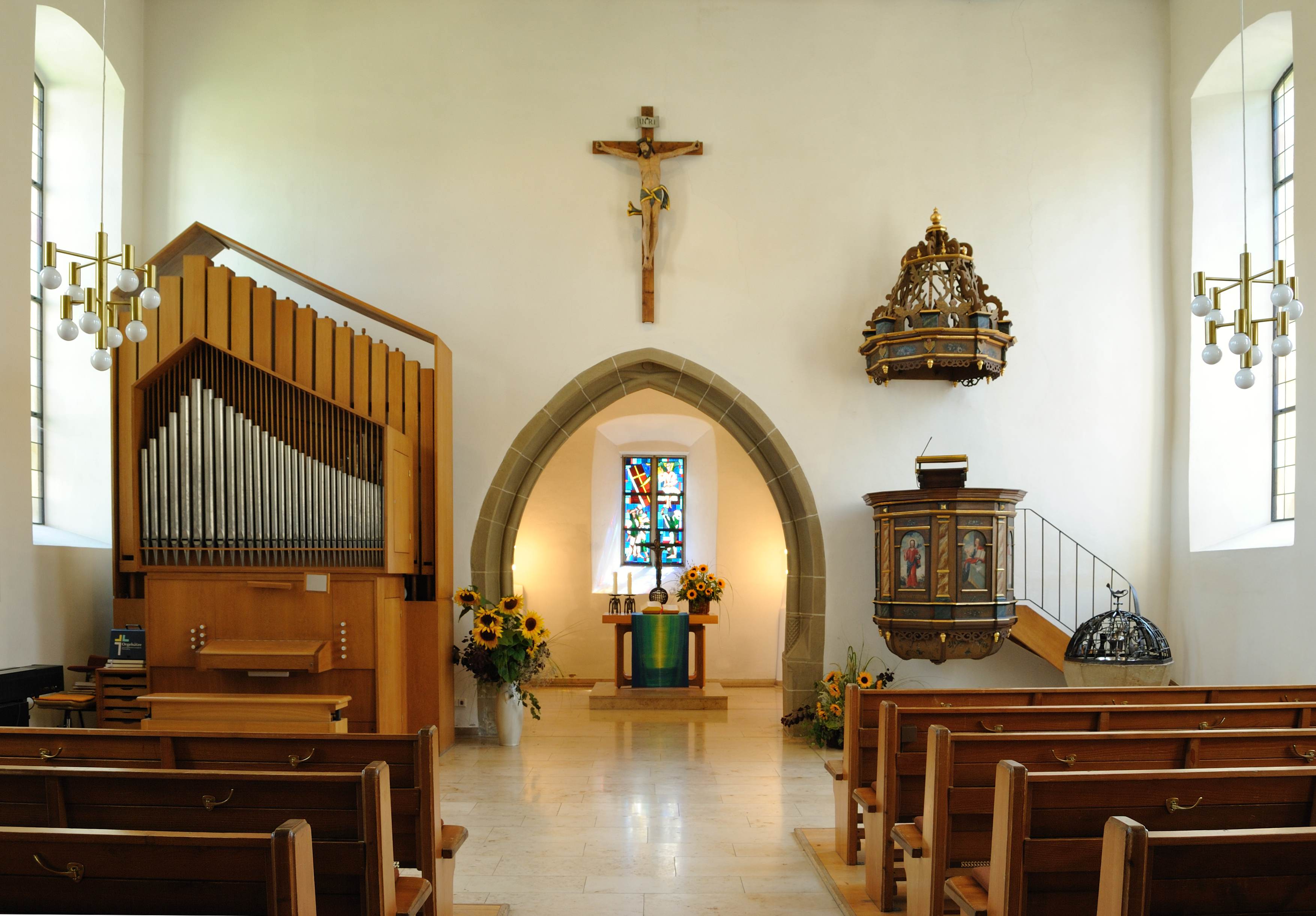 The protestant parish church St. Oswald in Hirschlanden in Baden-Württemberg in Germany.